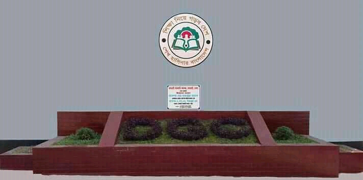 প্রবেশ পথ